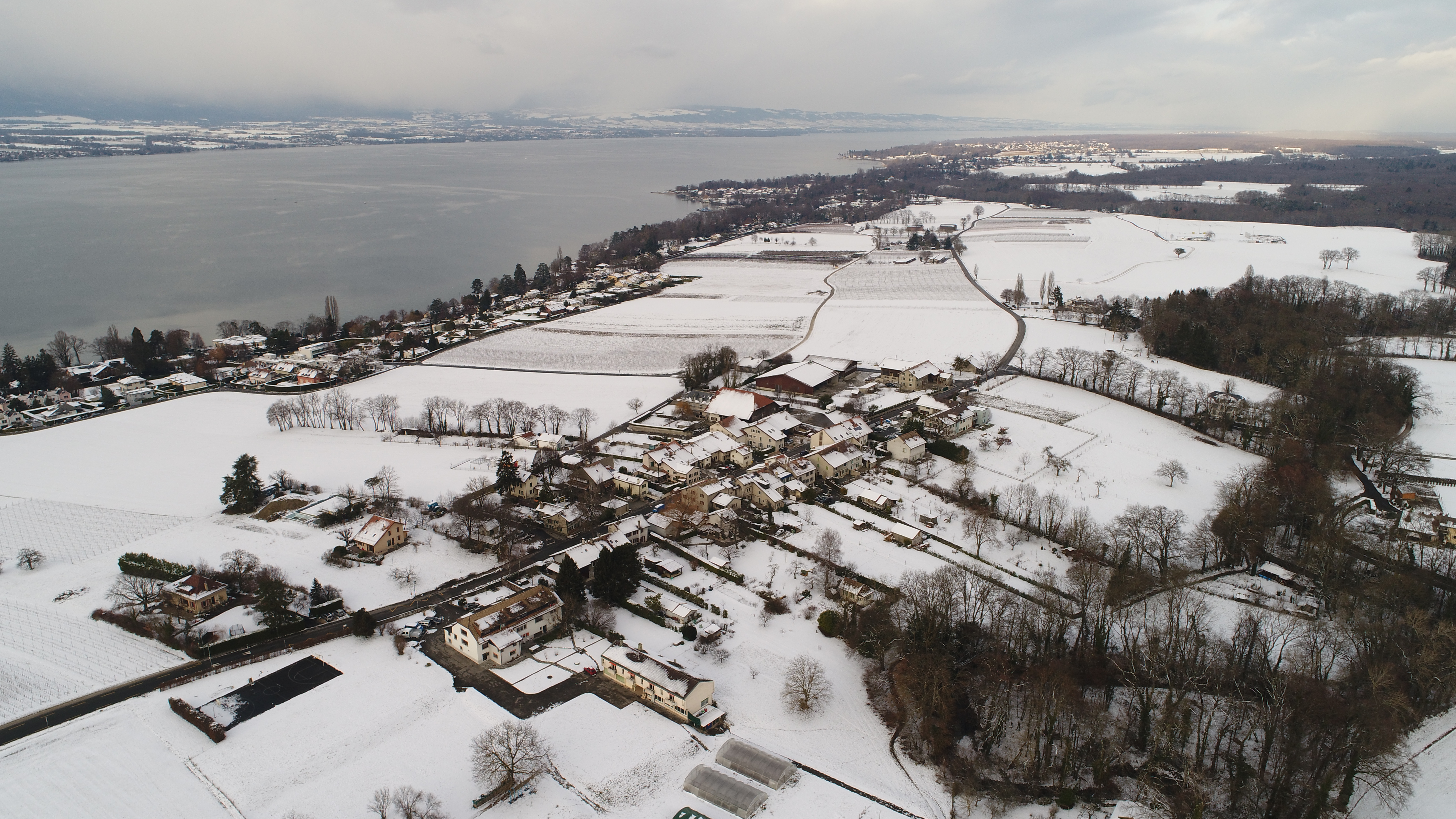 Chevrens, GE